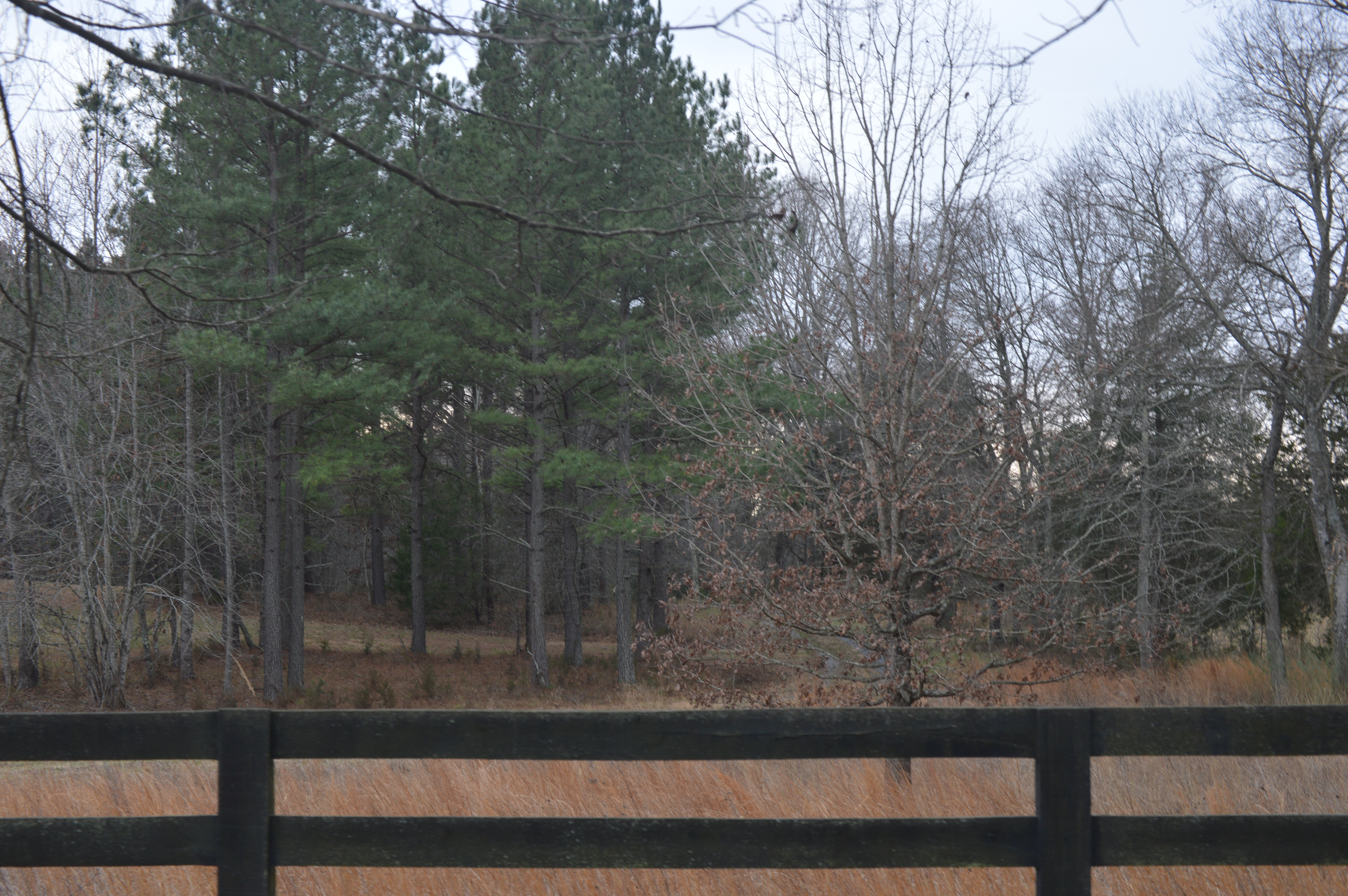 A fenceline on Coles Rolling Road southeast of Keene in Albemarle County, Virginia, United States. The fence marks the boundaries of Pine Knot, a largely wooded property that was once the country residence of Theodore Roosevelt; it is listed on the National Register of Historic Places.